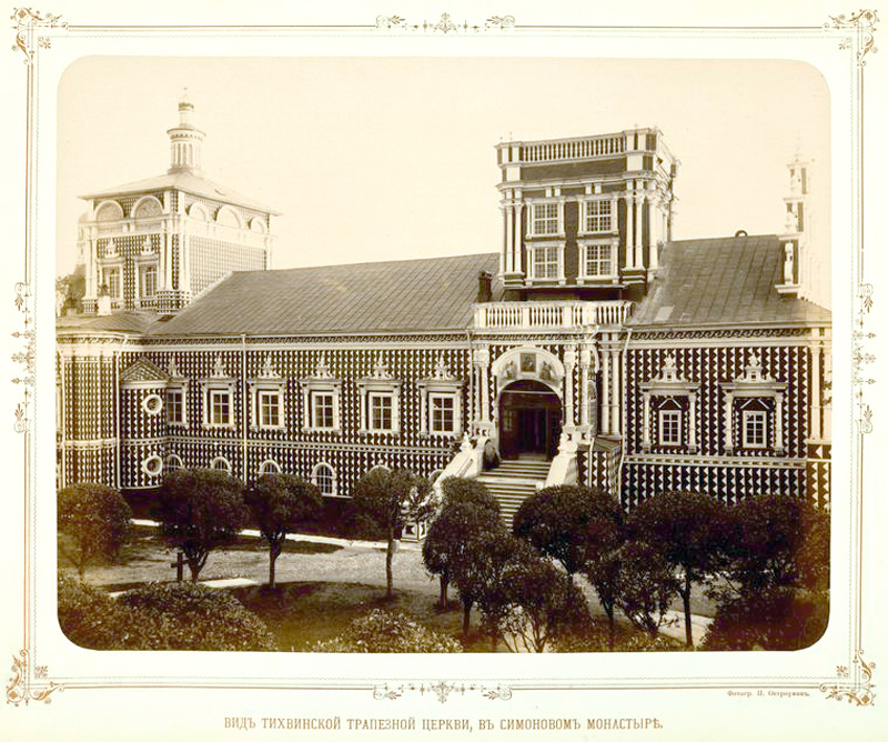 Simonov Monastery (Симонов монастырь) in Moscow. Tikhvinskaya Church znd Trpeznaya